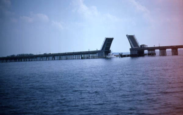 Old Edison Bridge (Fort Myers, Florida)